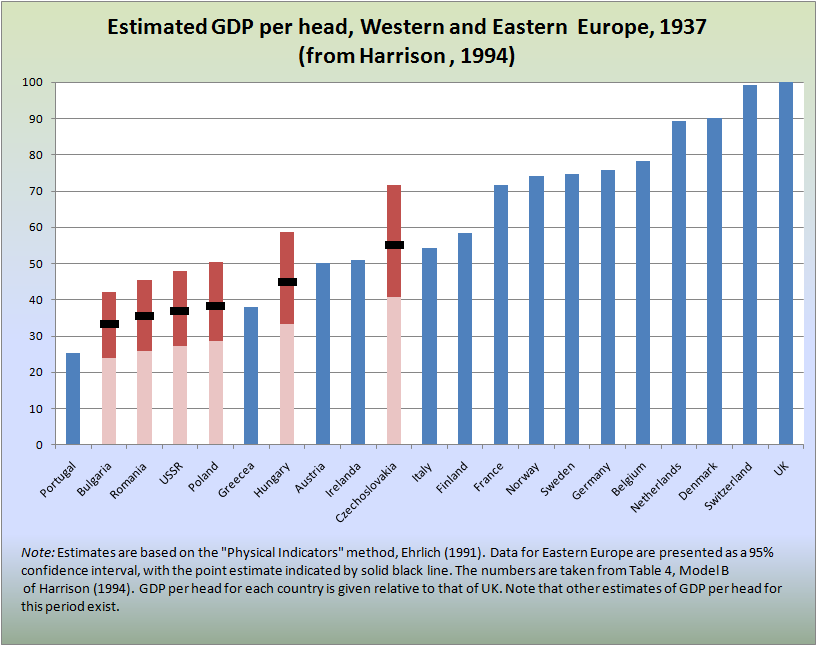 GDP per head for 1937 European countries. Based on Mark Harrison 1994, tables 4 and 5, model B